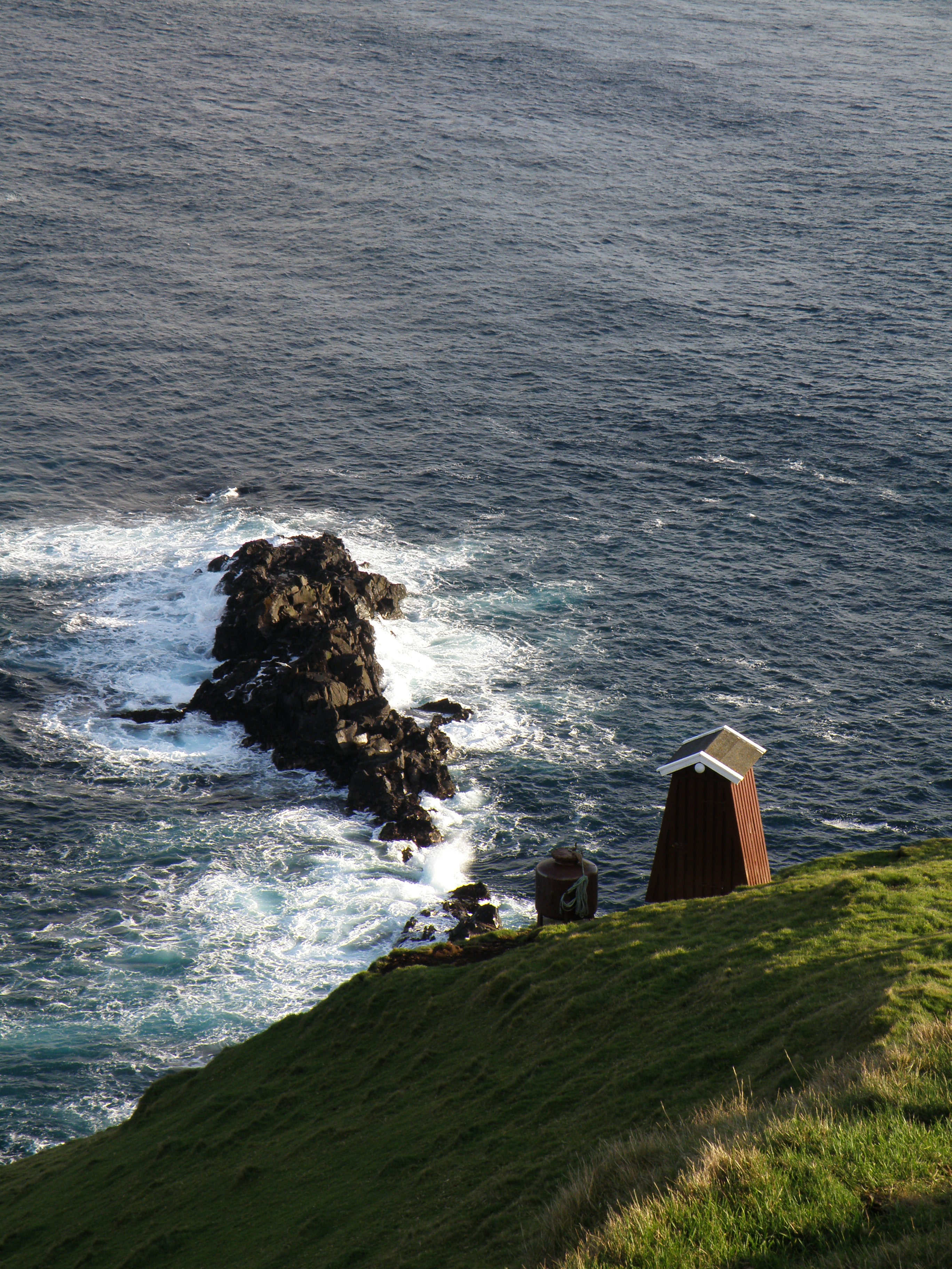 The foghorn in Akraberg, the southern tip of Suðuroy, Faroe Islands. The photo was taken near the Lighthouse in Akraberg towards south.